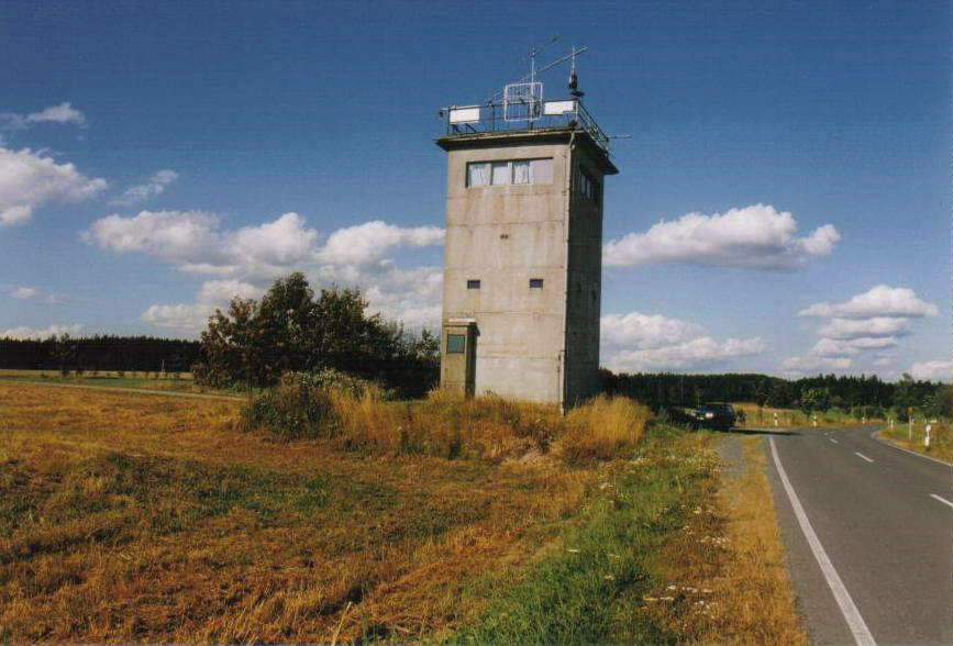 Watch tower on the former border between Hof (West-Germany) and Adorf/Vogtland (East-Germany) in Saxony near the border to the Czech Republic.